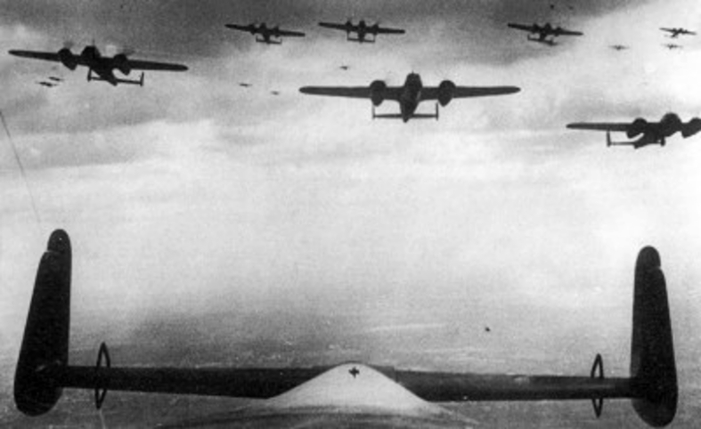 German Do 17Z bombers in flight during the Battle of Britain.